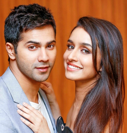 Press conference of 'ABCD - Any Body Can Dance - 2'